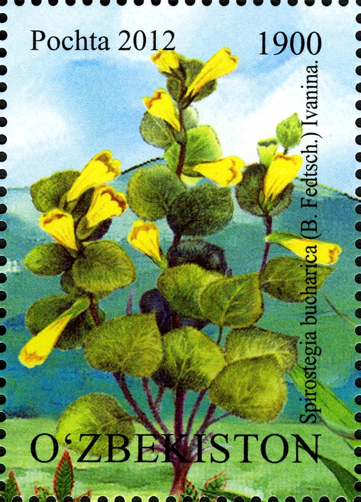 Stamps of Uzbekistan, 2012